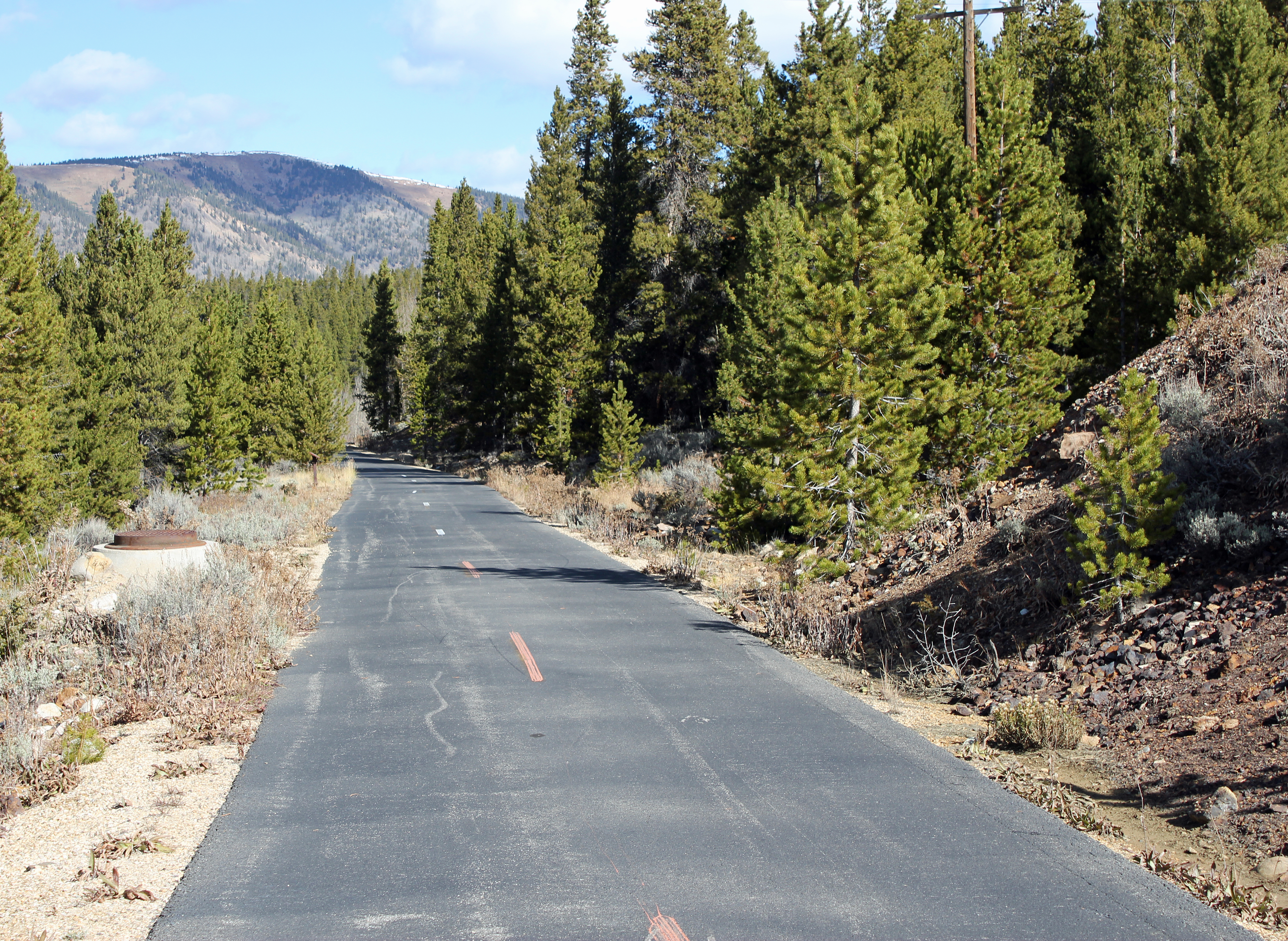 Mineral Belt National Recreation Trail, located near Leadville, Colorado.